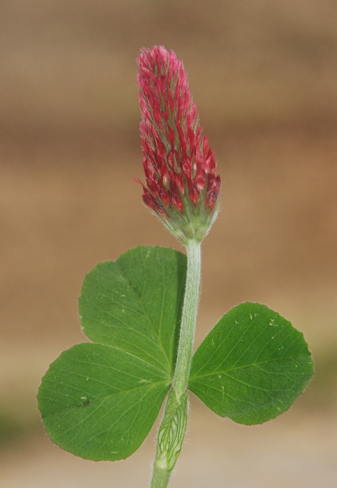 Trifolium incarnatum, Tauberland, Germany